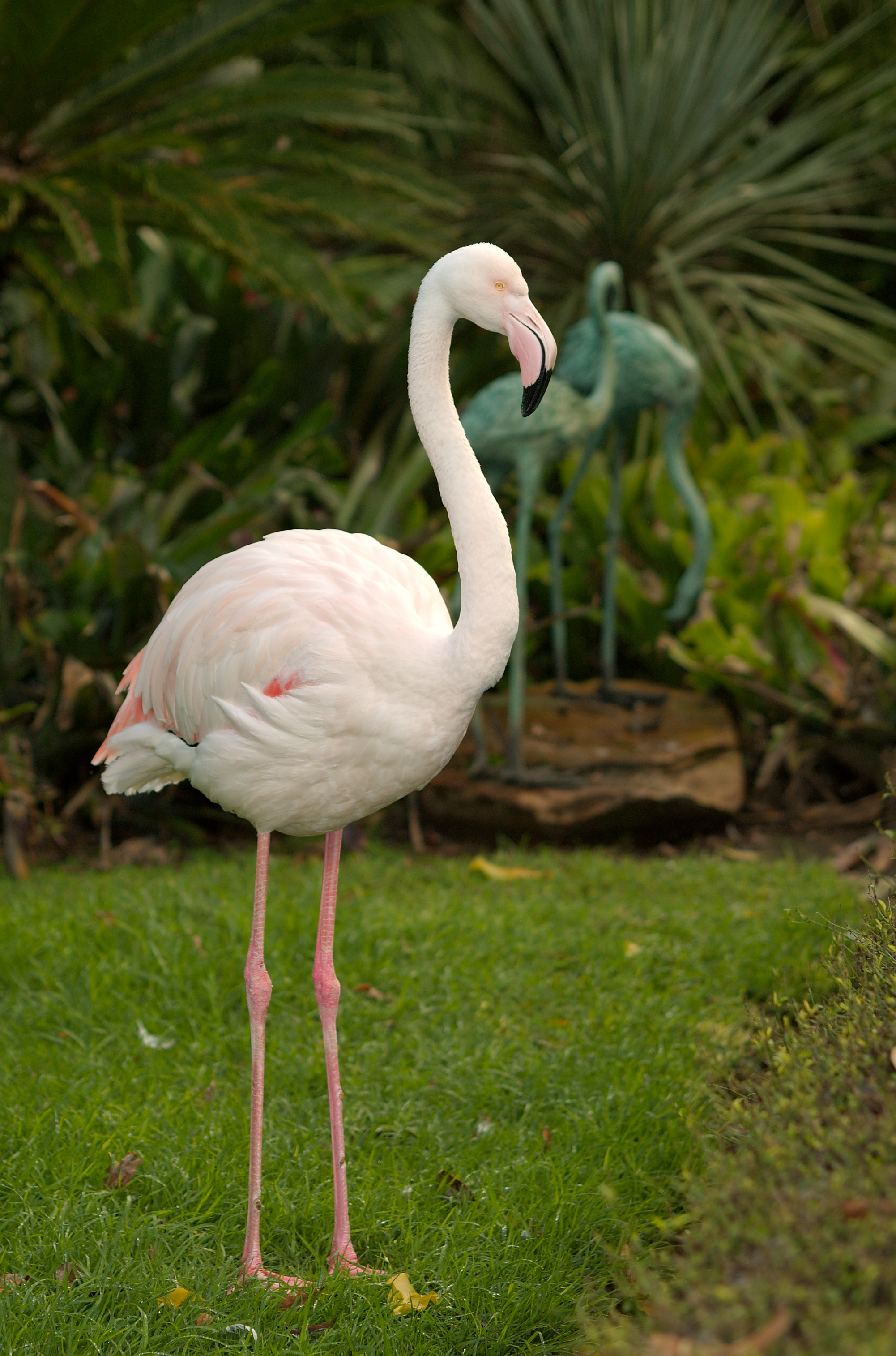 "Greater", the oldest Greater Flamingo on record. This photograph was taken in June 2008 at the Adelaide Zoo, where Greater lived since at least 1933.